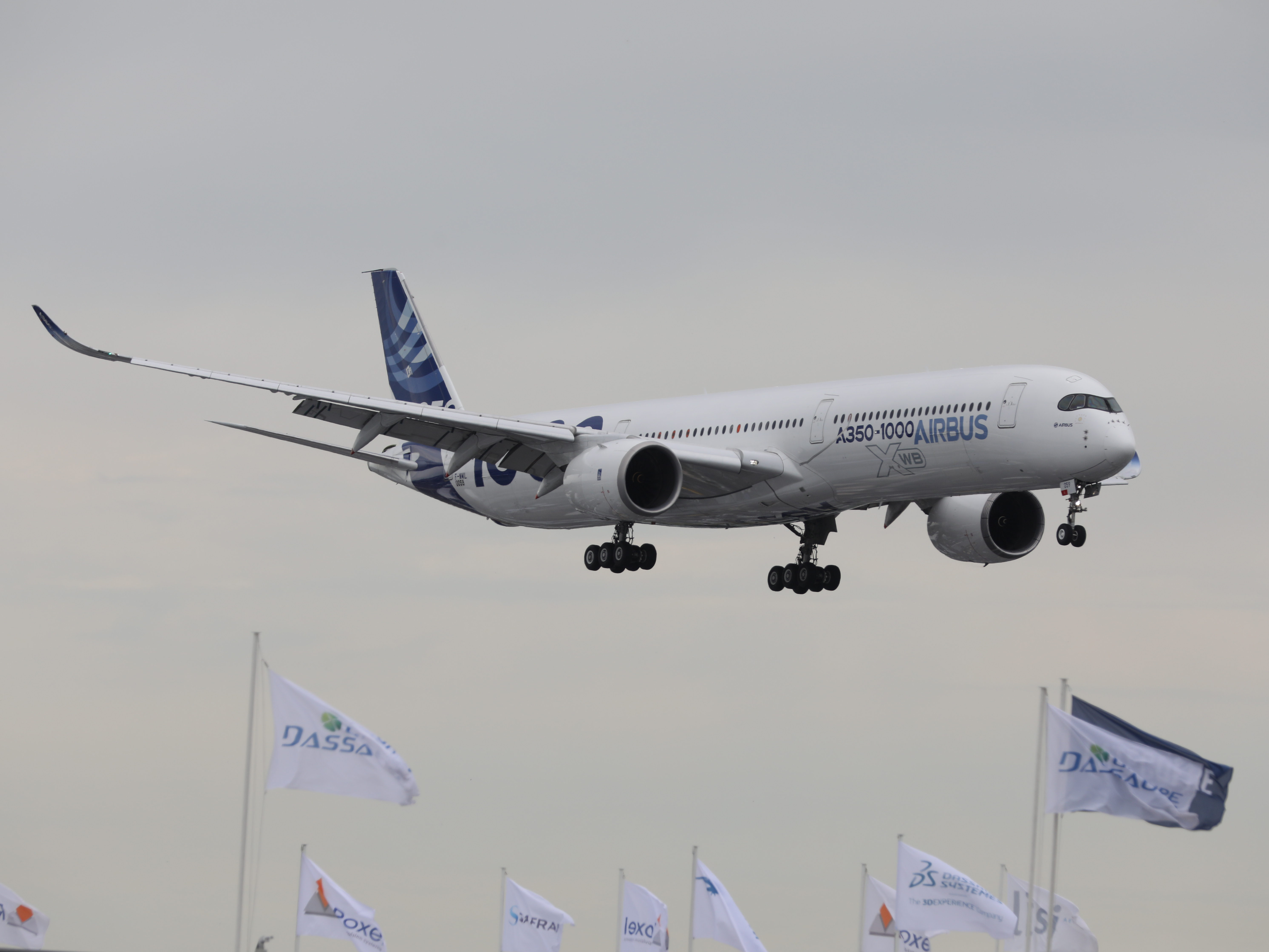 Paris Air Show 2019